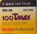 Kodak TMax100 box end label from 2018